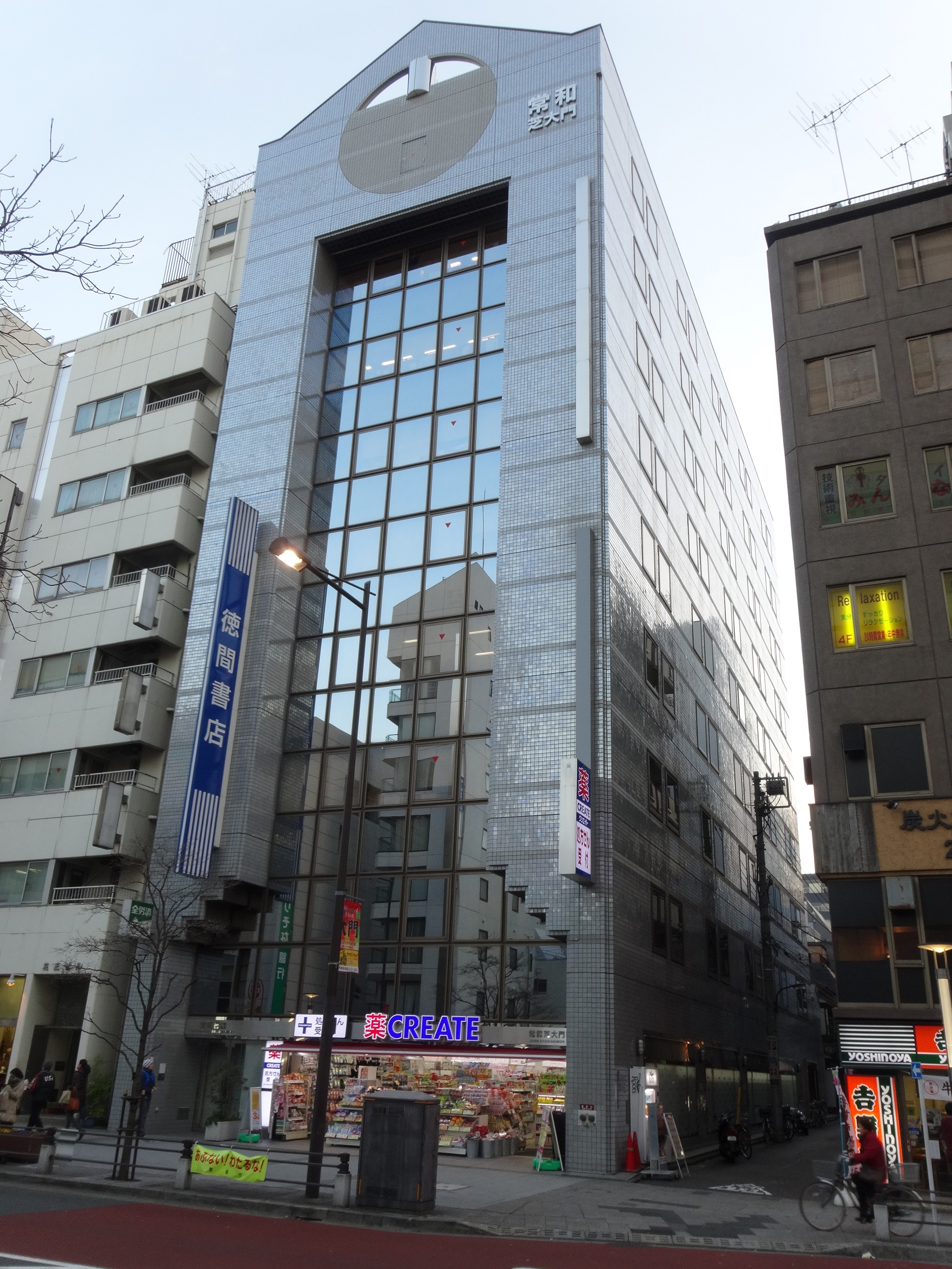 Jowa Shibadaimon building(Minato-ku Tokyo,Japan) - Tokuma Shoten headquarters